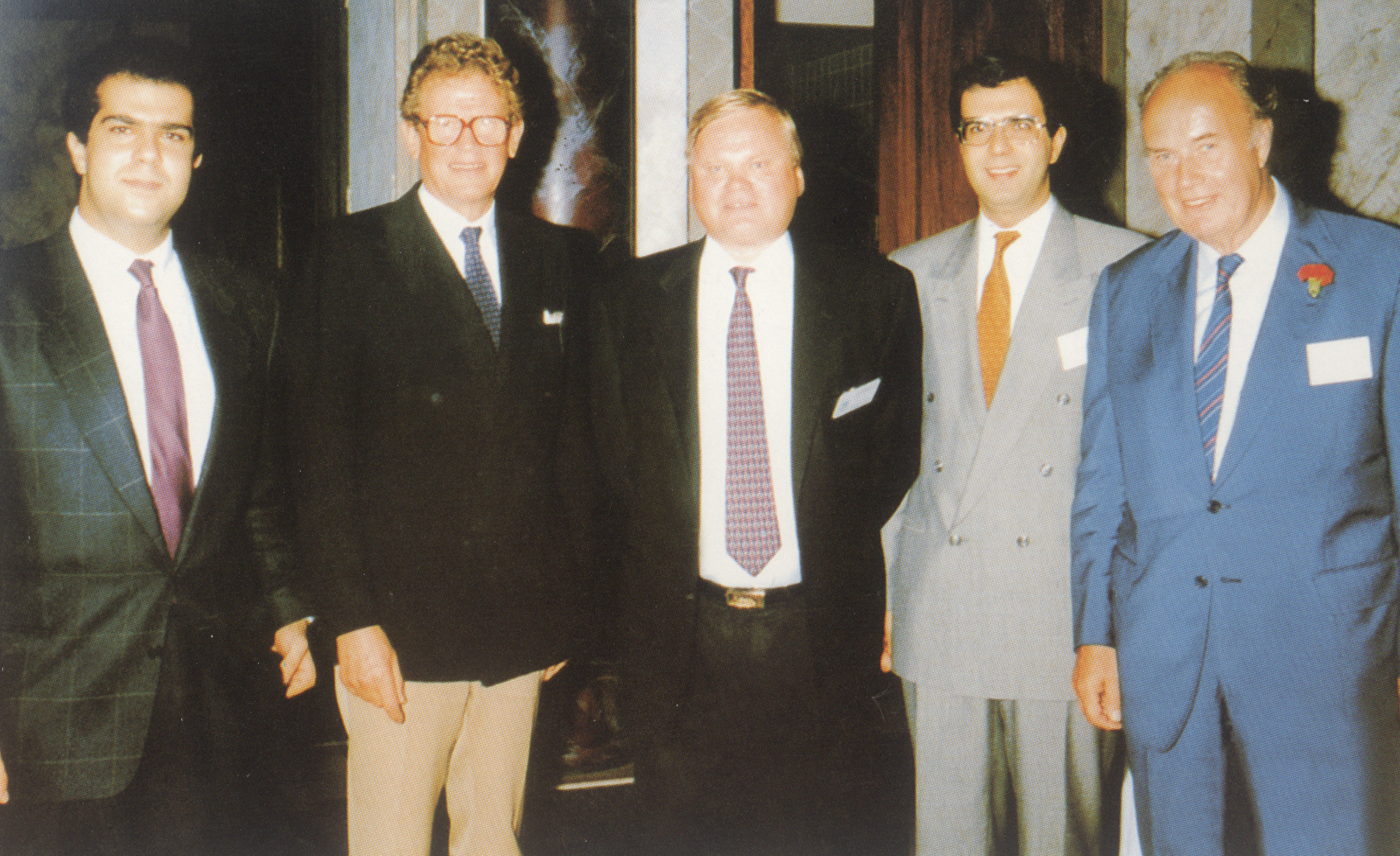 Stelios 1989